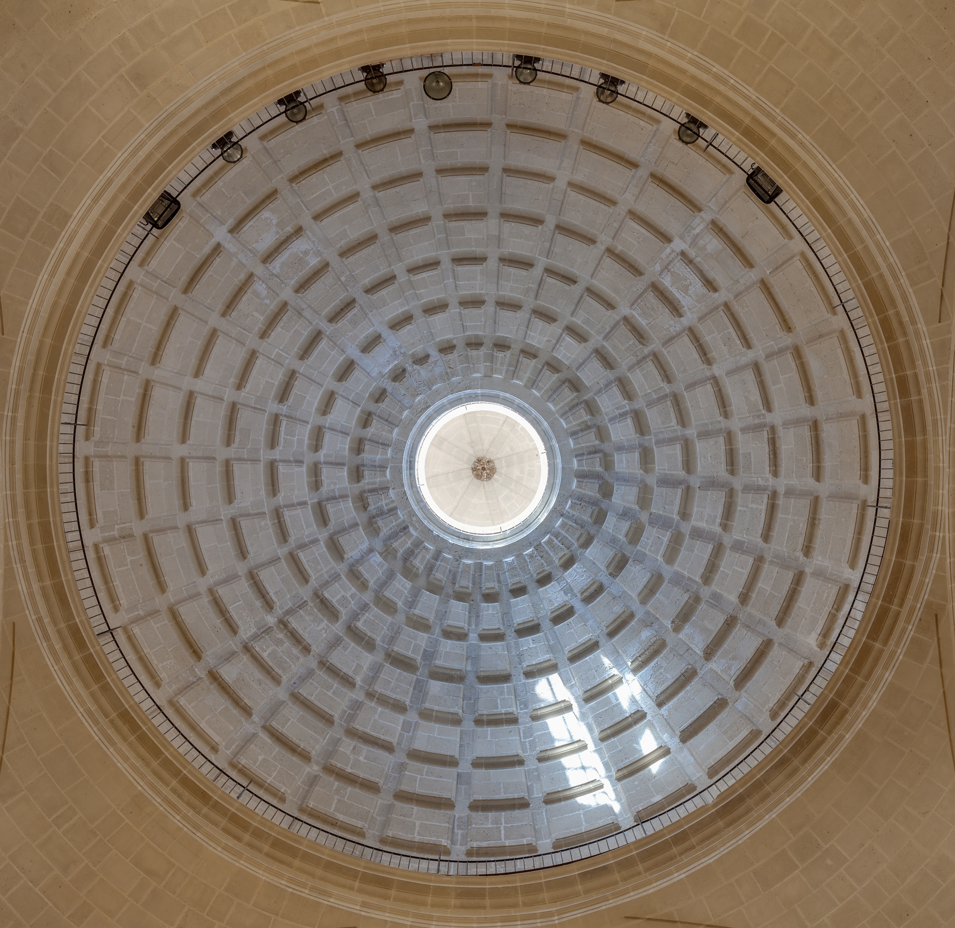 Church of St Nicholas of Bari, Alicante, Spain